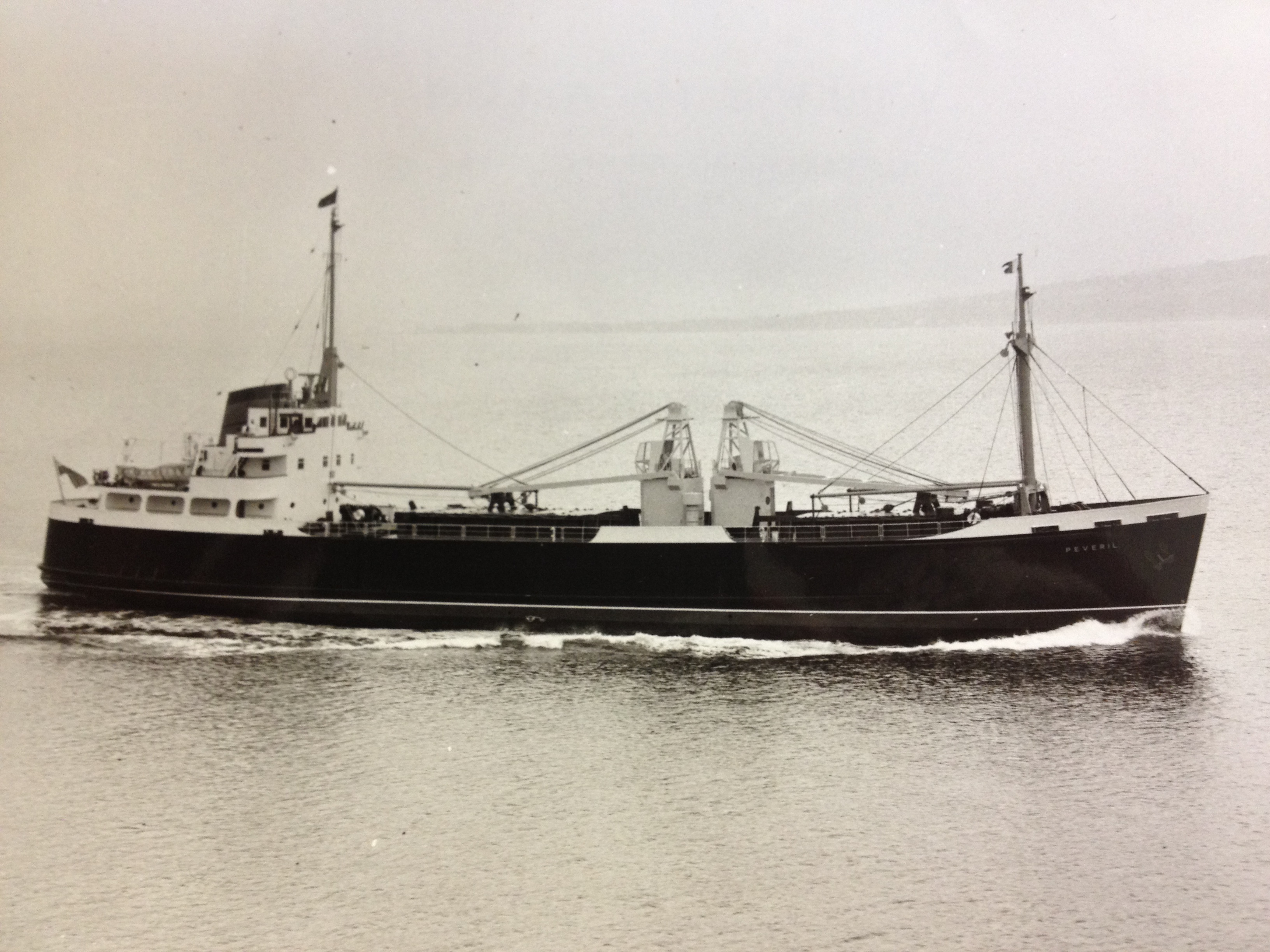 Isle of Man Steam Packet Company cargo vessel Peveril, pictured prior to the conversion to a container ship.